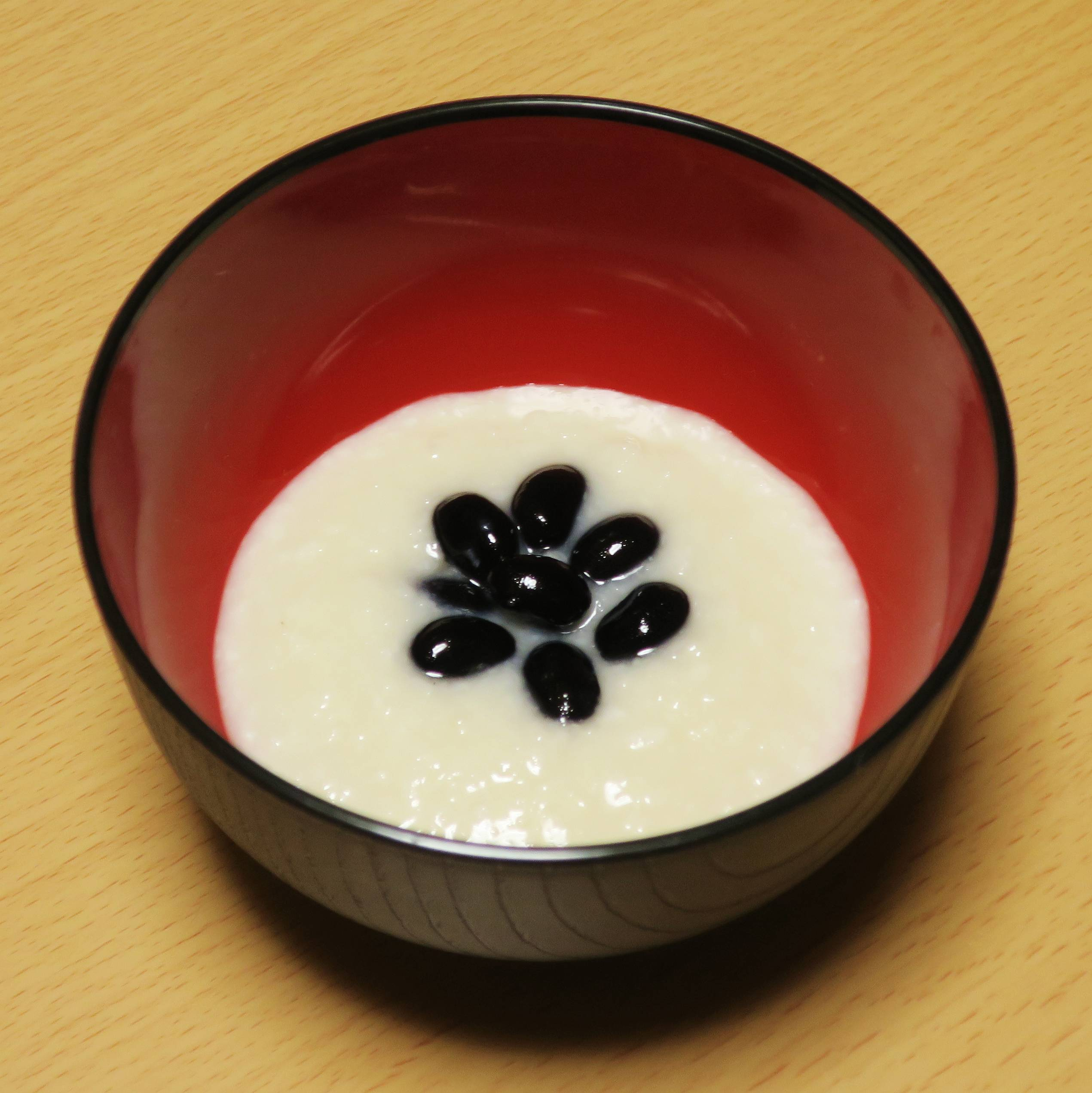 Onattō (amazake).